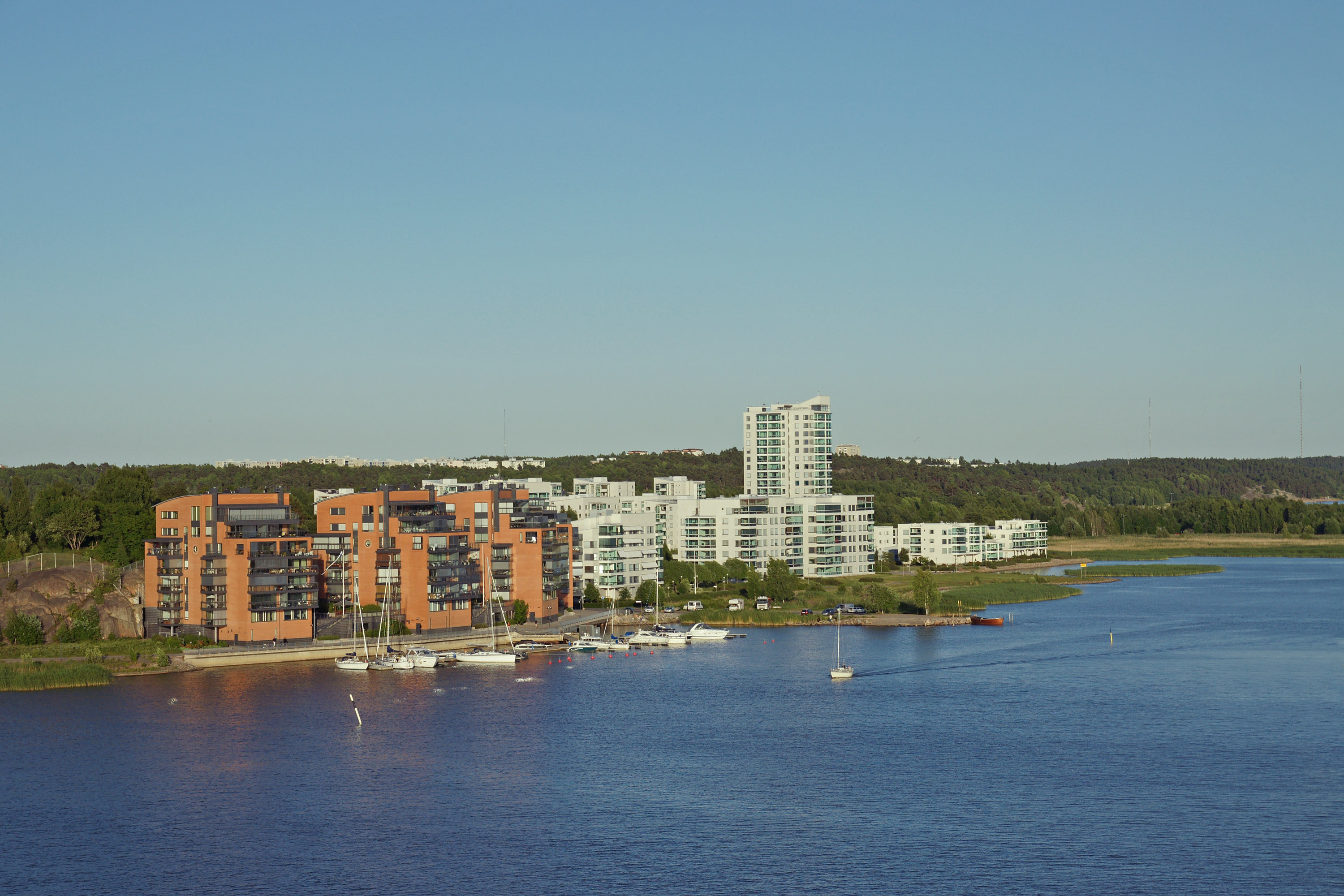 Korppolaismäki, Turku.